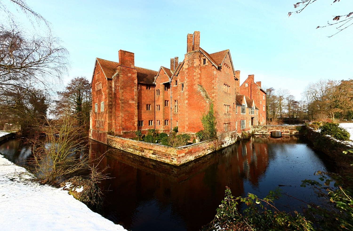 Harvington Hall. David Linford, From MEng Survey Project.